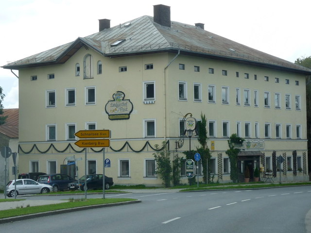 Frabertsham: Gasthof